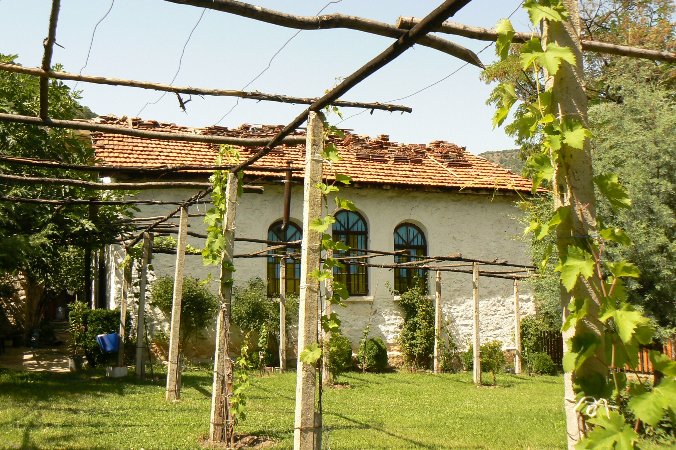 The church of Krichim Monastery, Bulgaria.